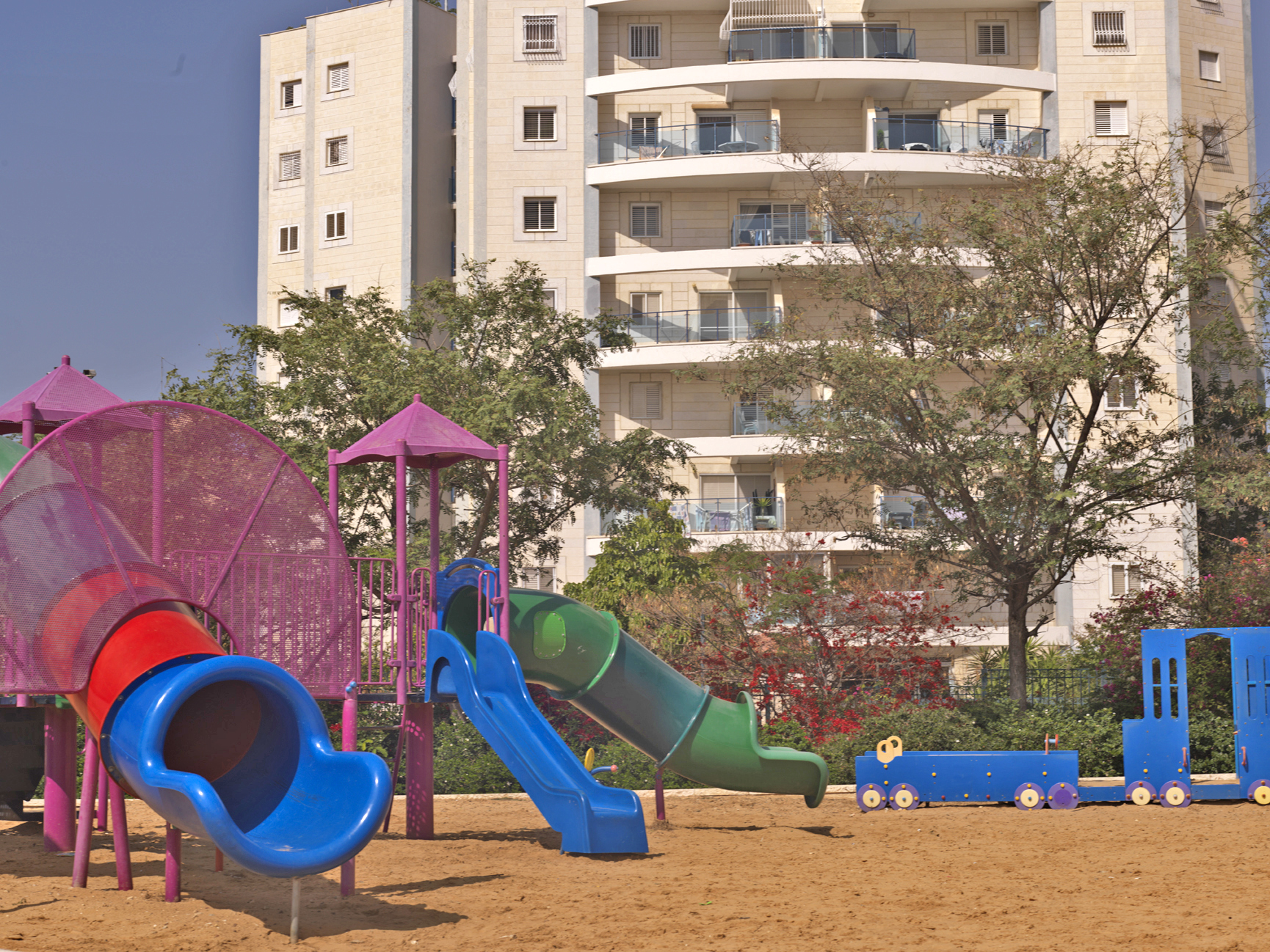 Architecture of Israel